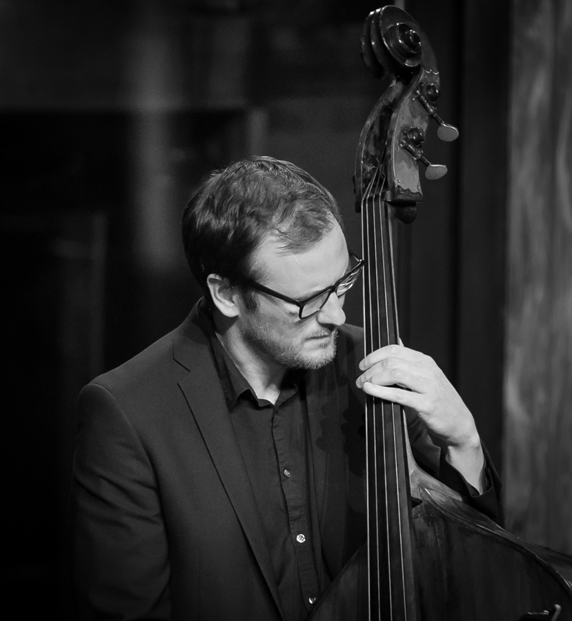 Per Zanussi performs with Håkon Kornstad Tenor Battle at the stage of Sentralen. The concert was part of the Oslo Jazz Festival in Norway and took place on 19. August 2016. Lineup: Håkon Kornstad (saxophone) Sigbjørn Apeland (harmonium) Lars Henrik Johansen (harpsichord) Per Zanussi (double bass) Øyvind Skarbø (drums)